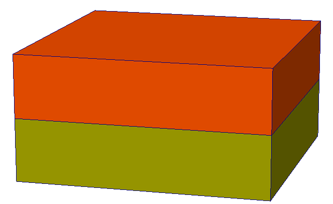 A corner-point grid with two cells stacked on top of each other. In the Eclipse syntax, the grid is described by SPECGRID 1 1 2 1 F / -- Bottom and top of each of the four pillars here defining the corners of the box. COORD 0.0 0.0 0.0 0.0 0.0 0.5 1.0 0.0 0.0 1.0 0.0 0.5 0.0 1.0 0.0 0.0 1.0 0.5 1.0 1.0 0.0 1.0 1.0 0.5 / -- The points along pillars for where cell tops and bottoms are defined -- Number are ordered layer by layer. Each cell needs four pillar values for its -- bottom and four for its top. The next layer must have its bottom explicitly defined, -- giving two equivalent lines in this listing. ZCORN 0.00 0.00 0.00 0.00 0.25 0.25 0.25 0.25 0.25 0.25 0.25 0.25 0.50 0.50 0.50 0.50 /